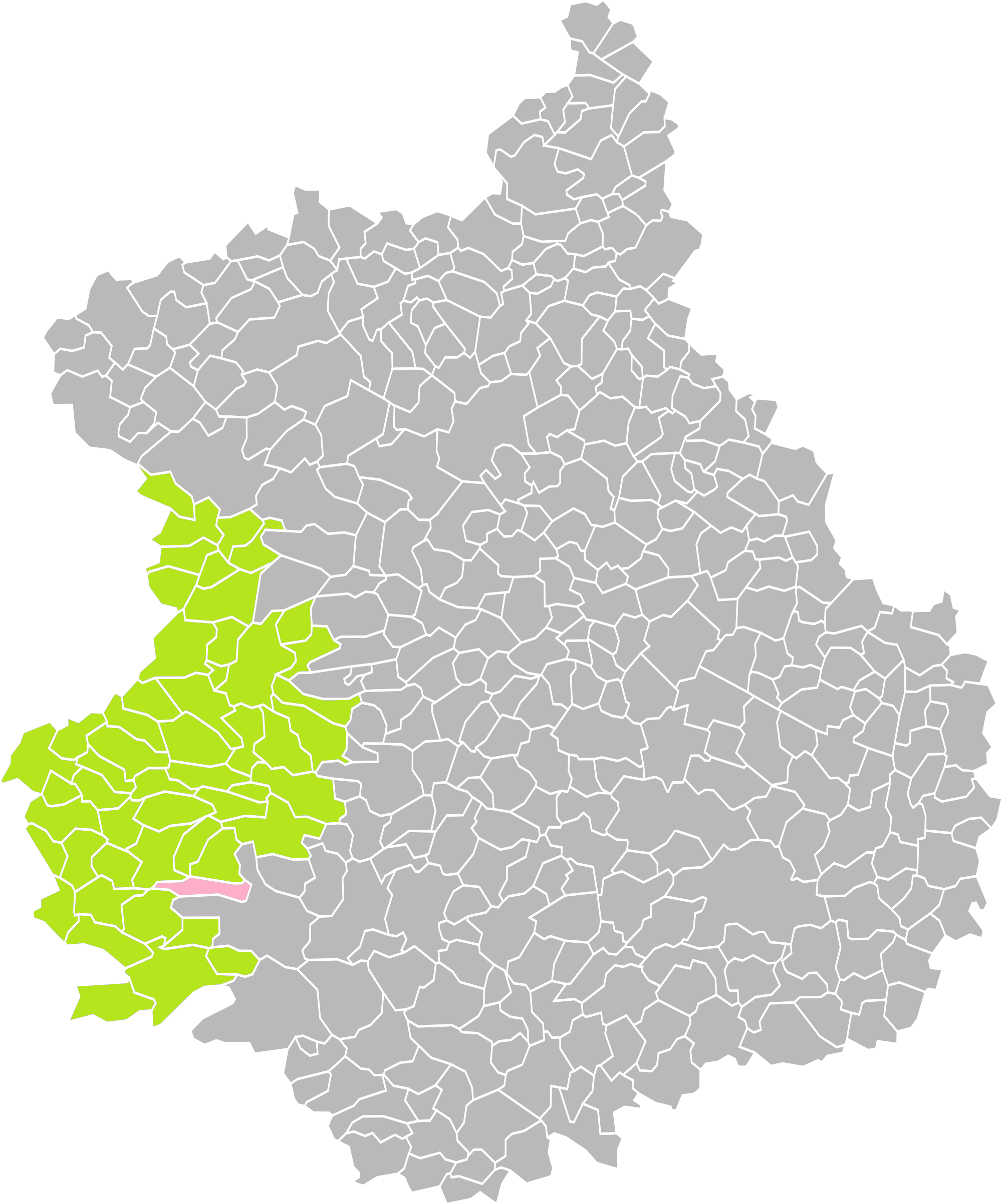 Location of the commune of Moulhard in the arrondissement of Nogent-le-Rotrou (Eure-et-Loir)